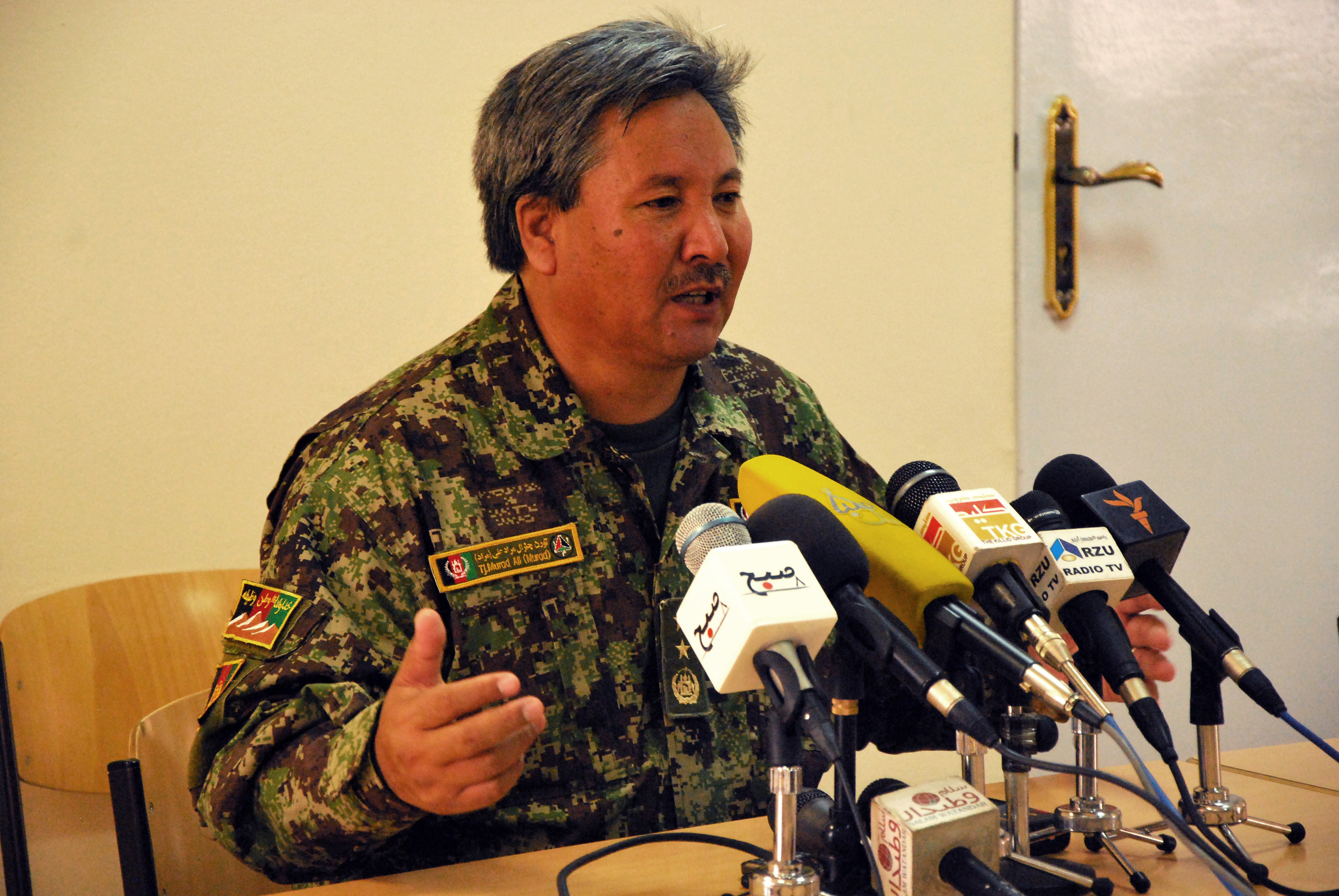 Afghan National Army 209th Corps Commander Maj. Gen. Murad Ali Murad answers questions concerning the security situation in the Balk province and the status of the 132 Training Kandak, which graduated another 1,421 soldiers, June 24.